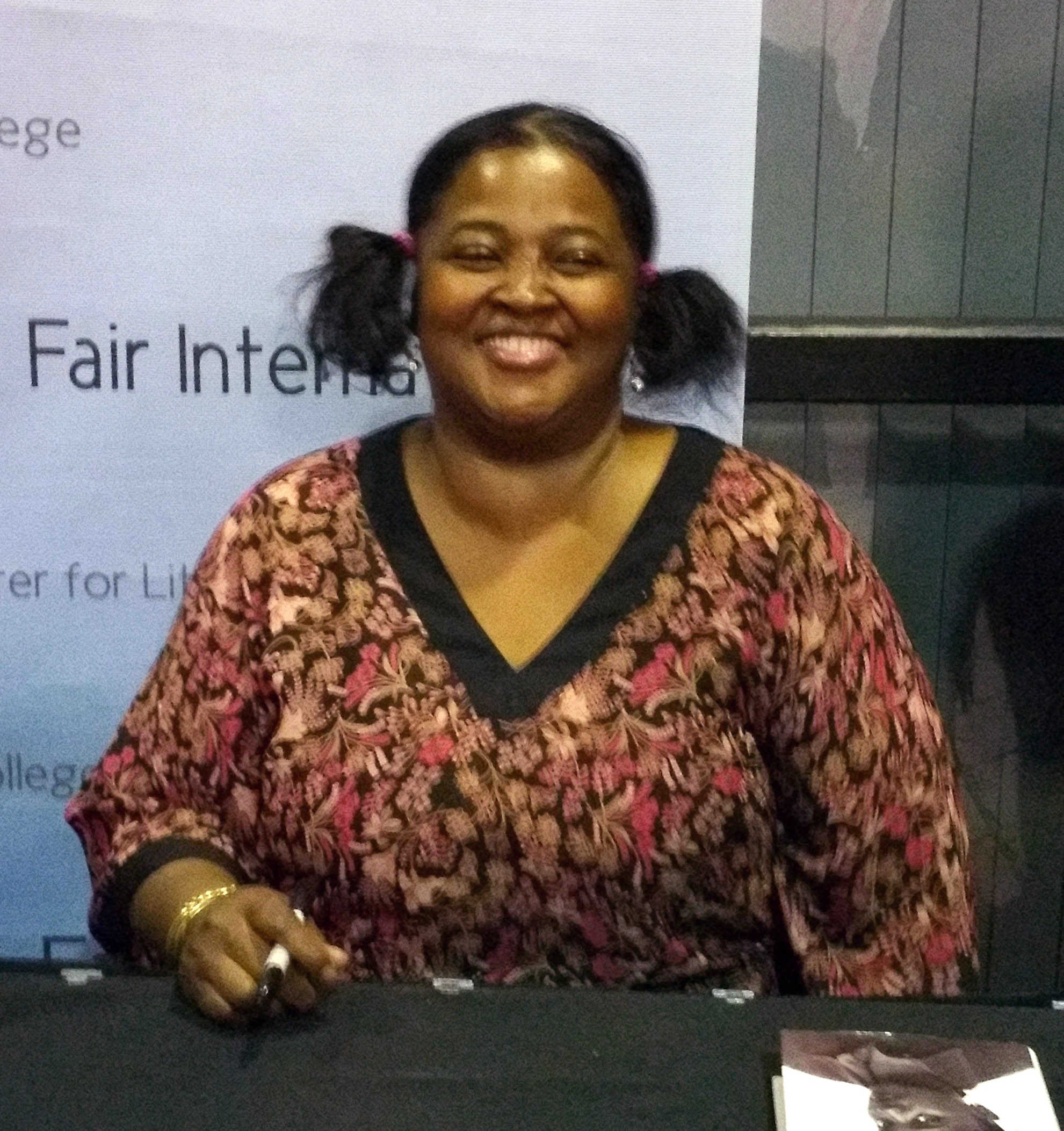 Sister Souljah at the Miami Book Fair, November 21, 2015, signing her book A Moment of Silence: Midnight III.